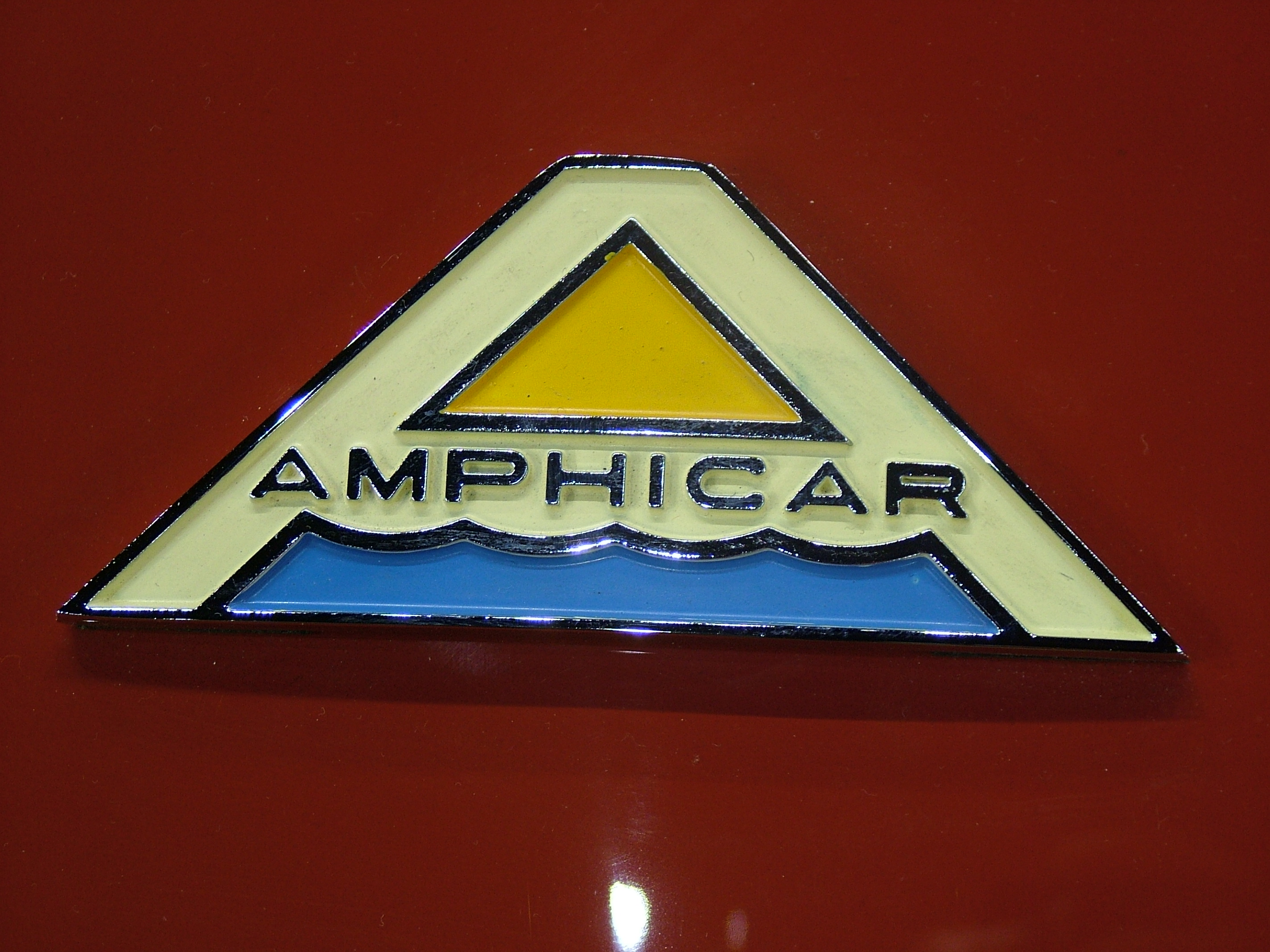 Amphicar 770 logo, 1964